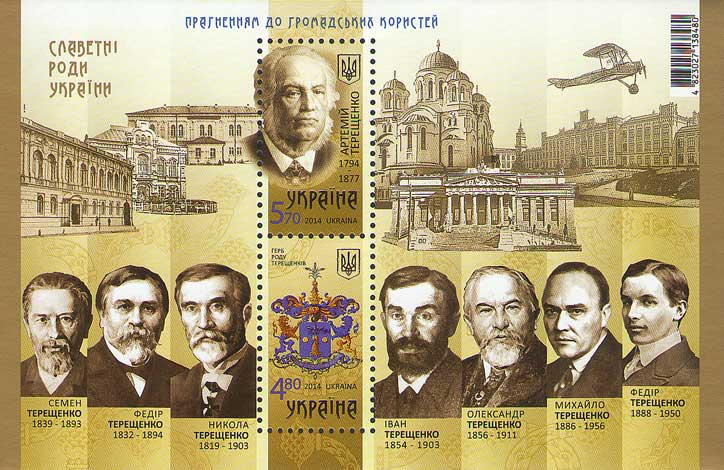 Stamps of Ukraine, 2014